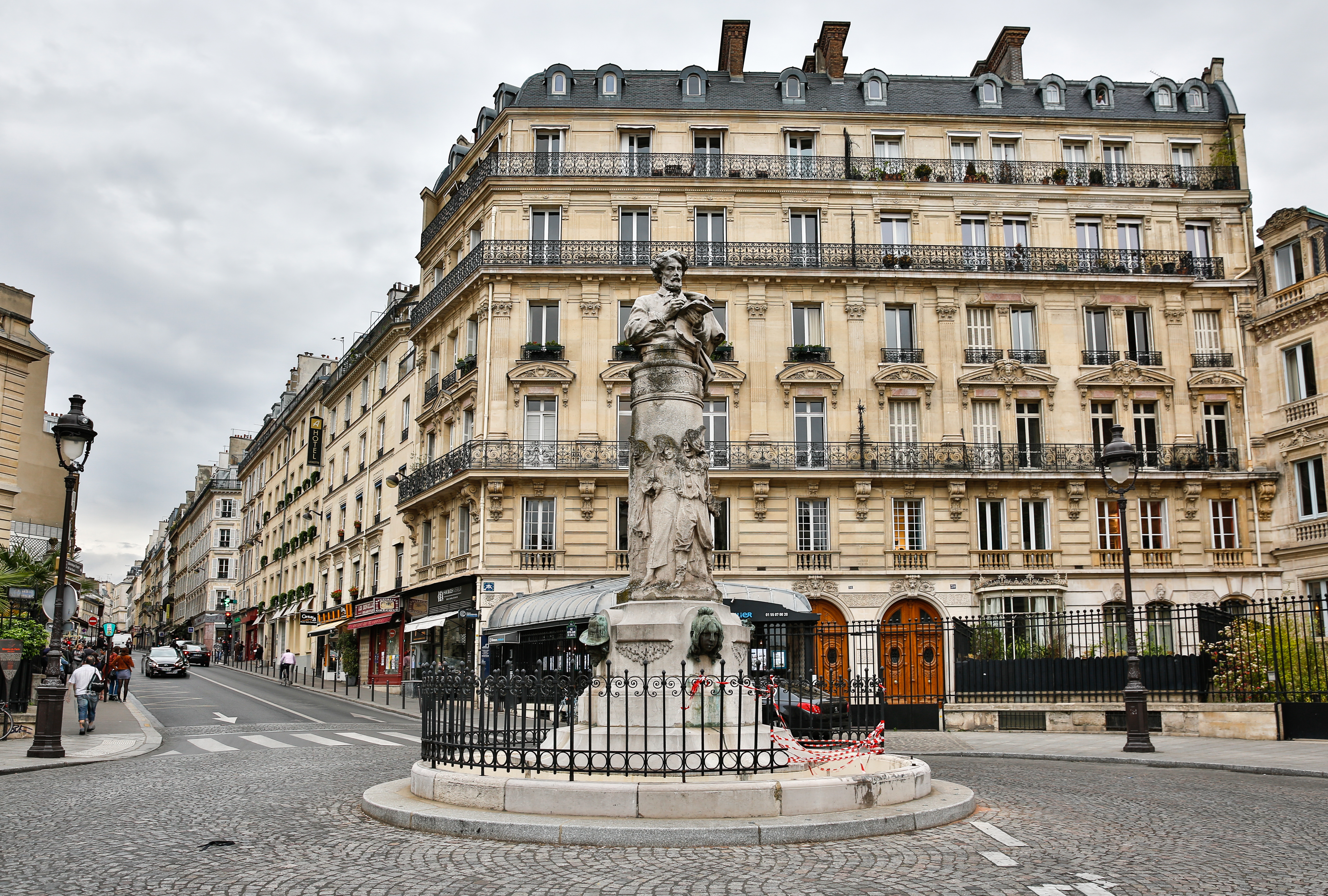 Place Saint-Georges, Paris.